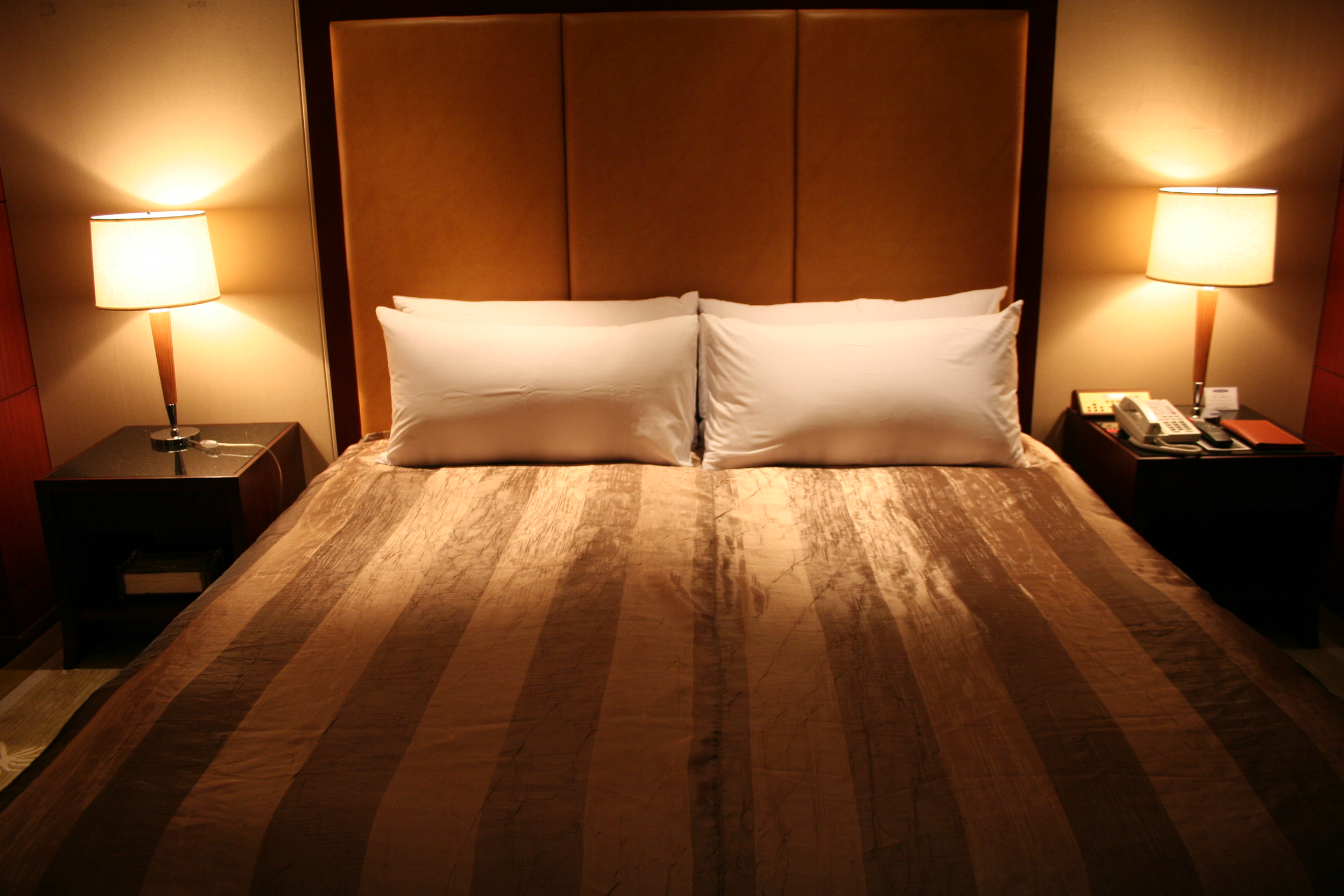 After spending a few days "roughing it" in "The Shining" type hotels, the Lotte was pretty amazing.